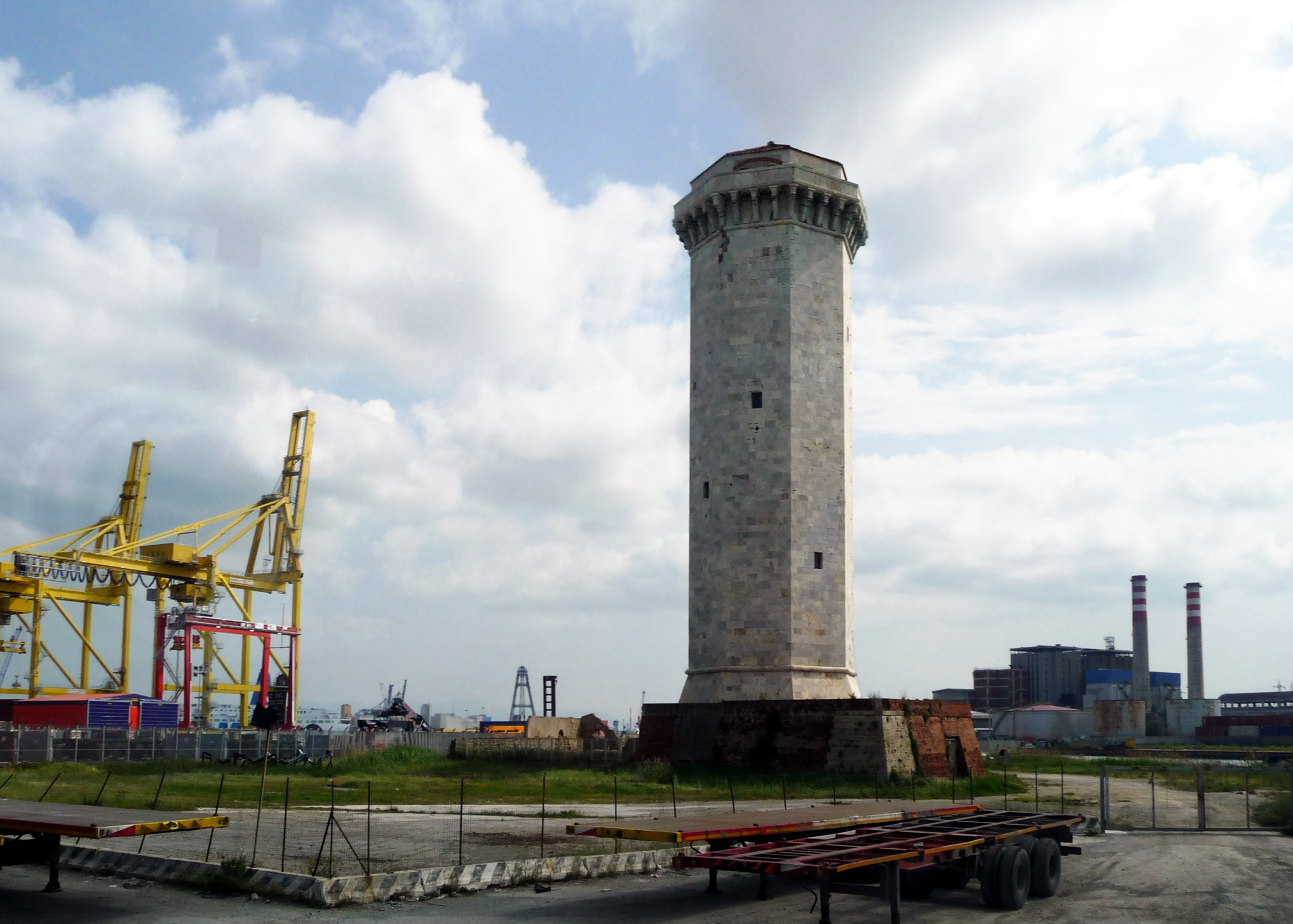 Torre del Marzocco, Port of Livorno, Tuscany, Italy - Coastal tower (15th century)